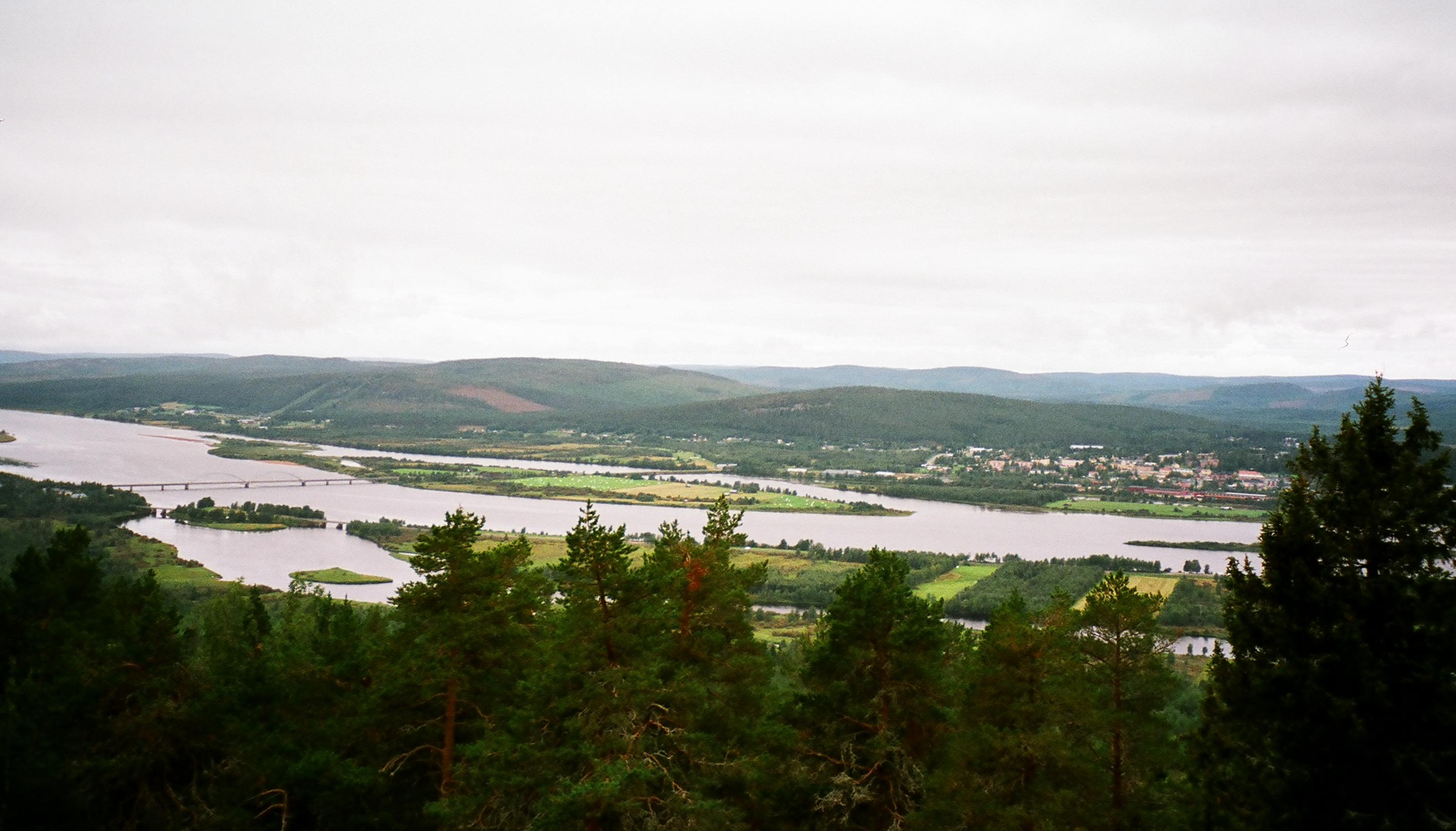 View to the west from the observation tower atop Aavasaksa hill in finnish Lapland. The wide Tornio river is flowing towards the left of the picture. The big village visible is Övertorneå-Matarengi in Sweden. On the far left the bridge marks one of the border points between Sweden and Finland.